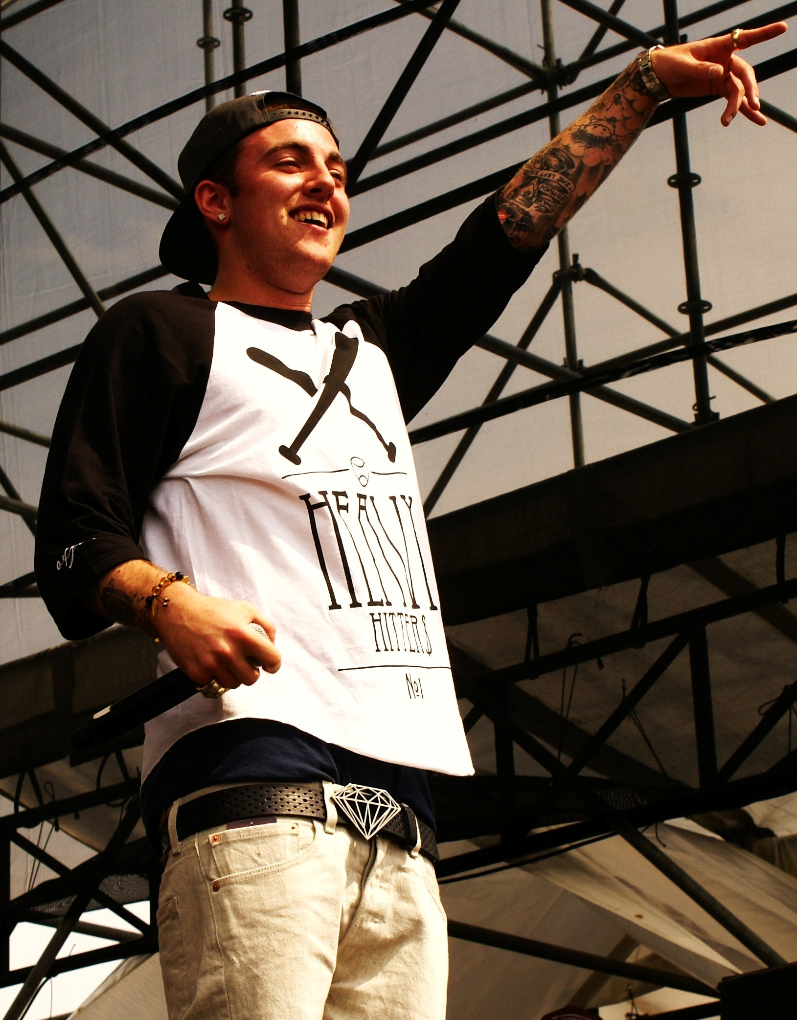 Mac Miller performs at the 2011 NYC Governors Ball